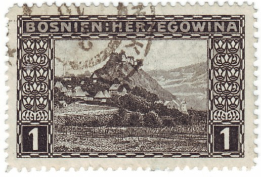 Postage stamp of Bosnia and H. depicting Doboj; No. 29; 1906